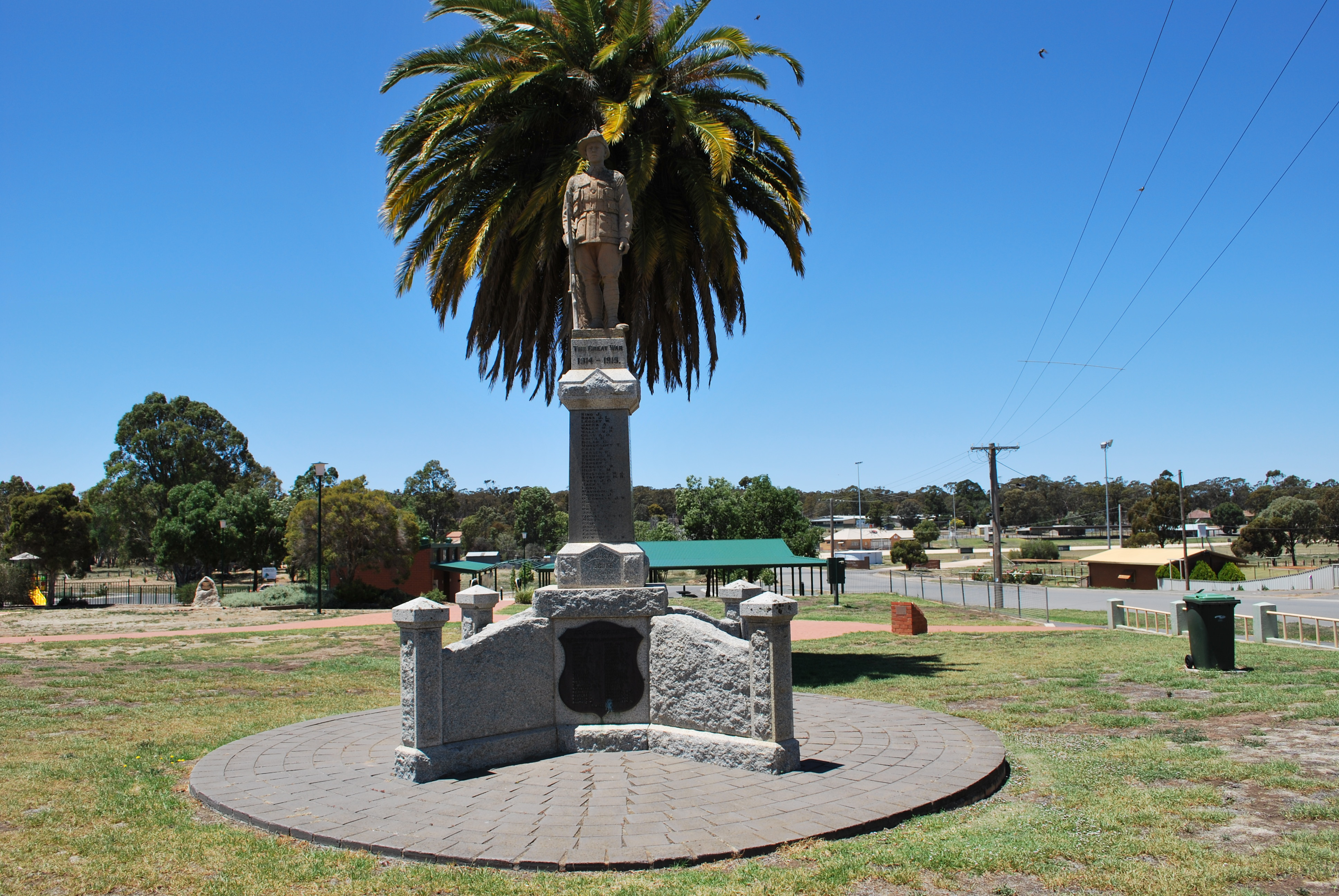 War memorial in Jacka Park at Wedderburn, Victoria. Albert Jacka is the fourth name listed.